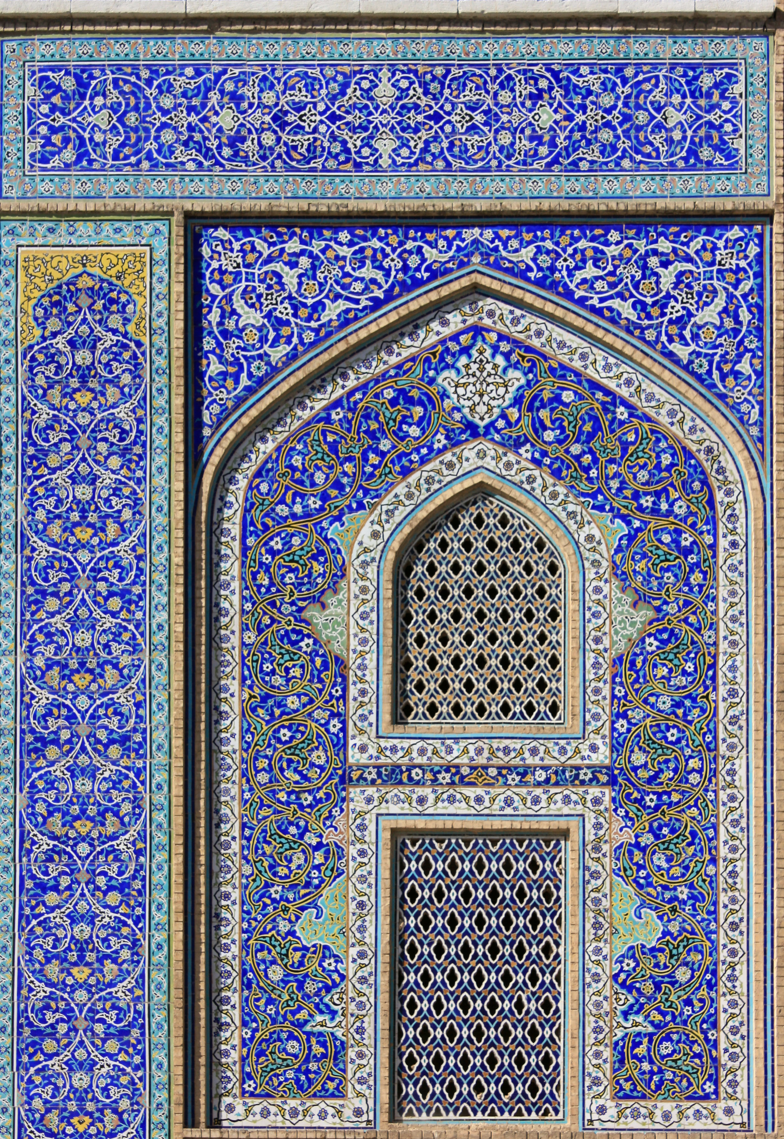 Tiles of Sheikh Lotf Allah Mosque